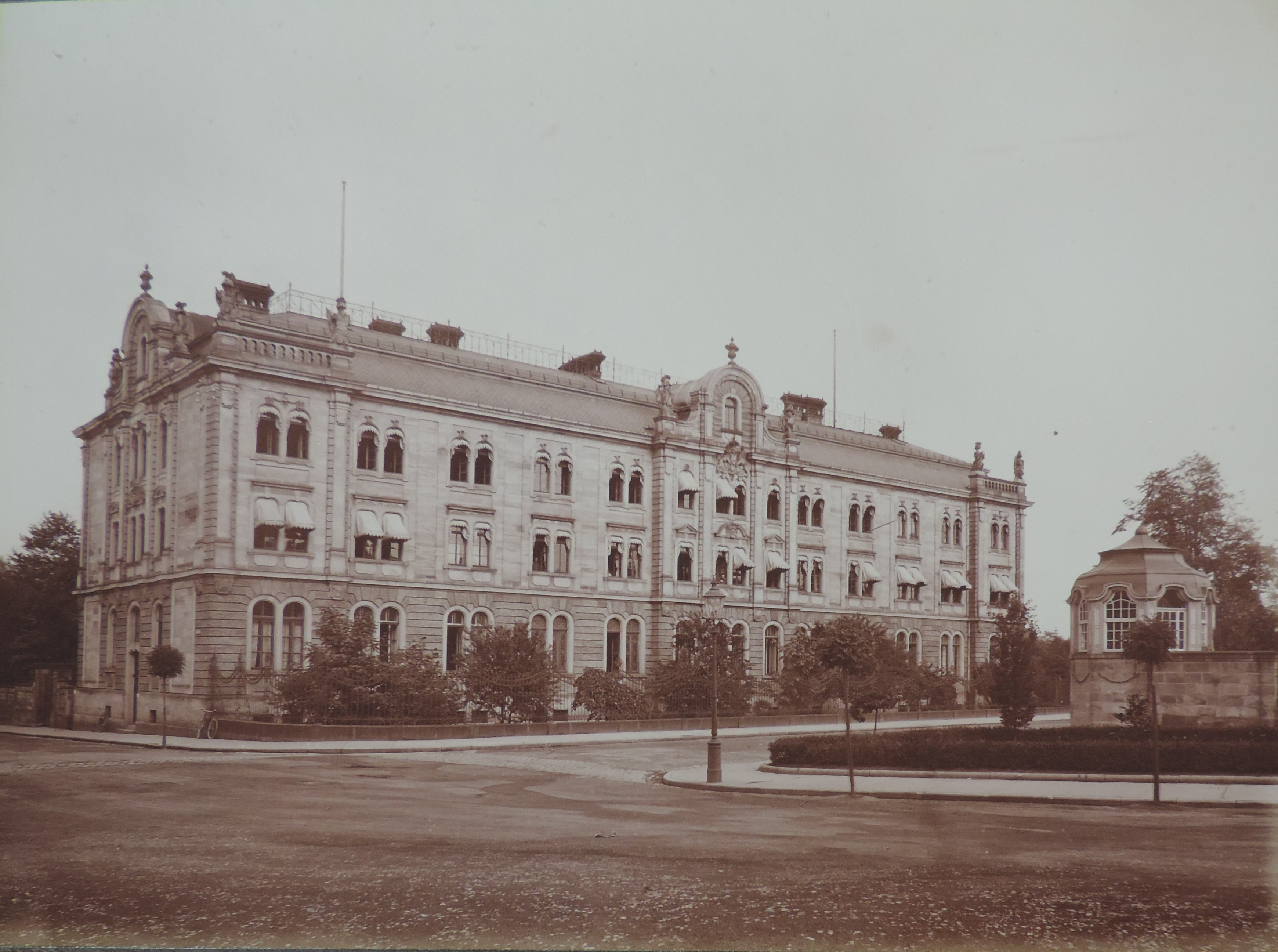 Views and photos of Bayreuth, Germany, gifted to Ferdinand I of Bulgaria to commemorate his 25-year rule. Officer's casino, 1898.